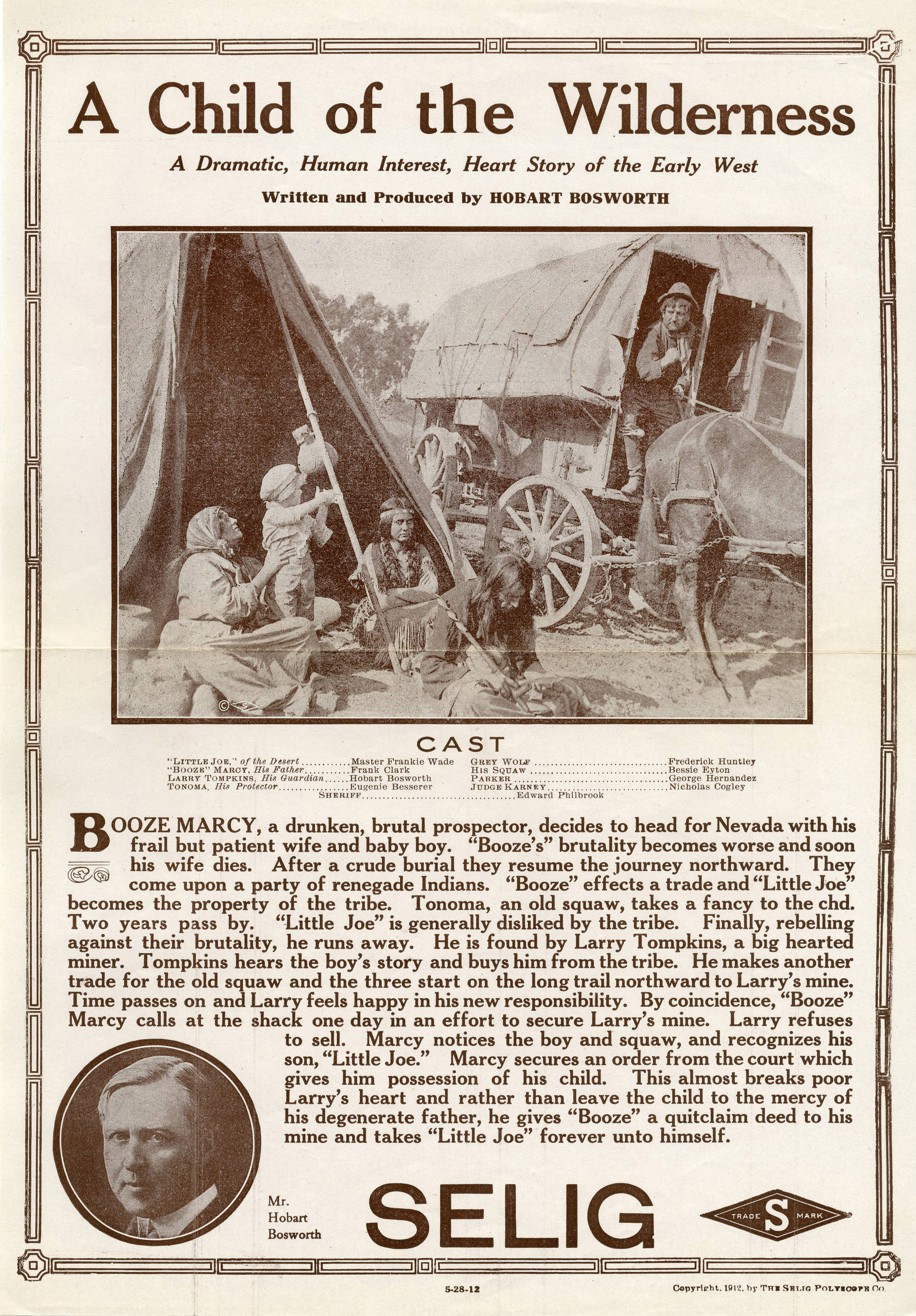 Release flier for A CHILD OF THE WILDERNESS, 1912